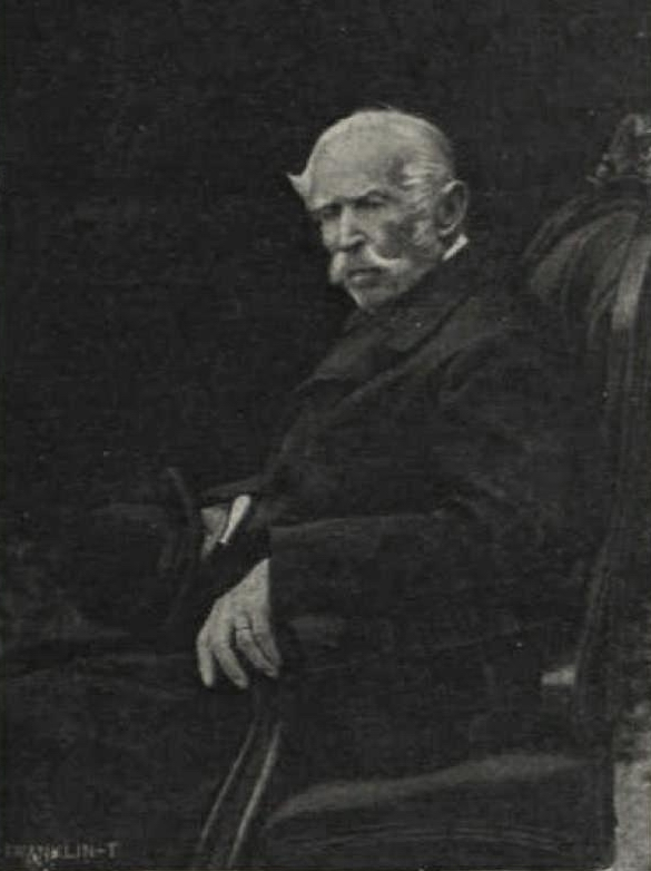 The bishop Áron Kiss